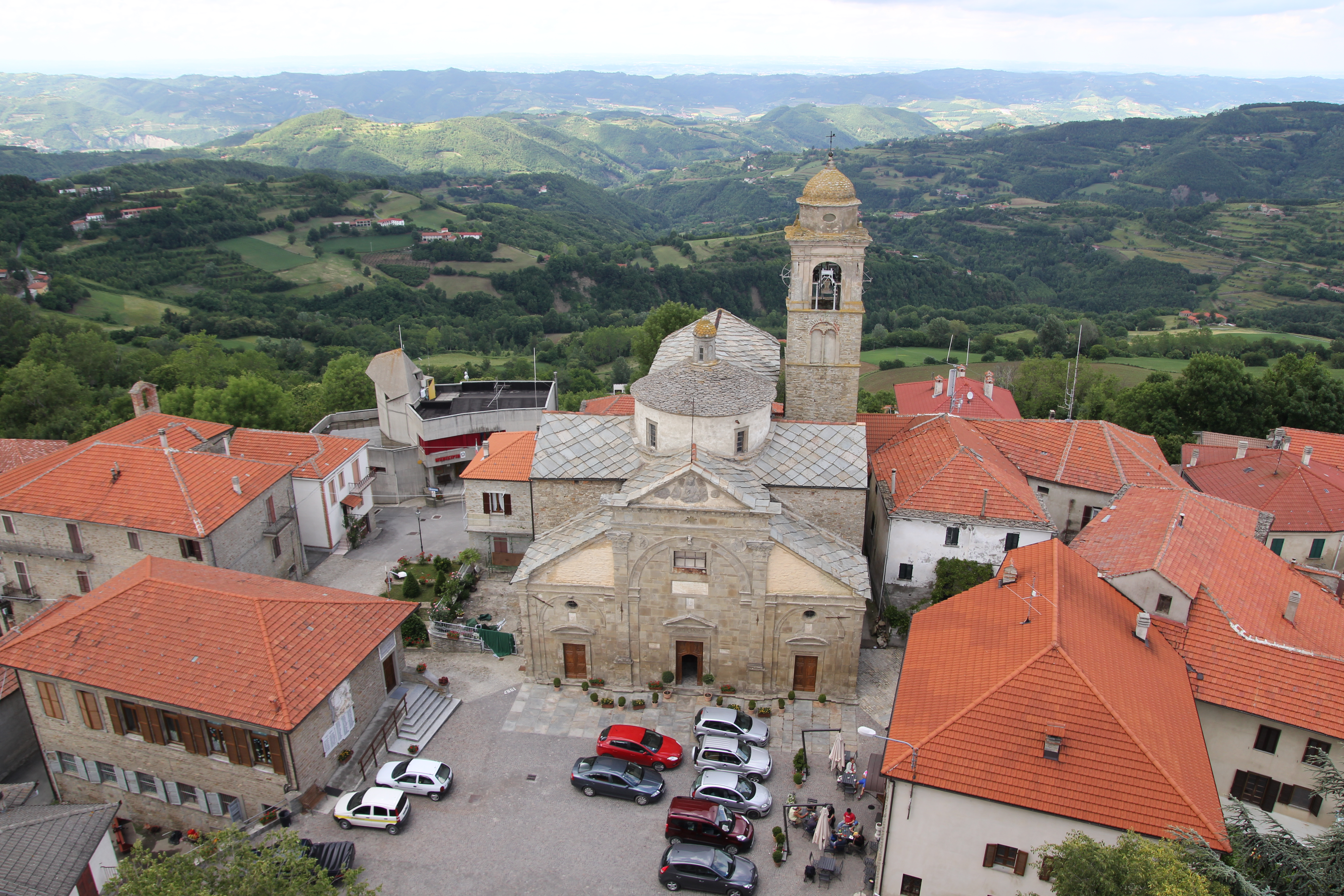 Church Santa Maria Annunziata, Roccaverano, Italy